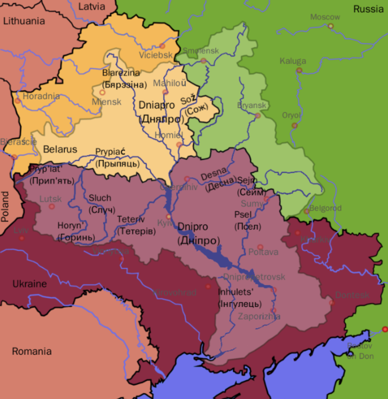 Map of the Dnepr River Basin, international version (english/kyrill)